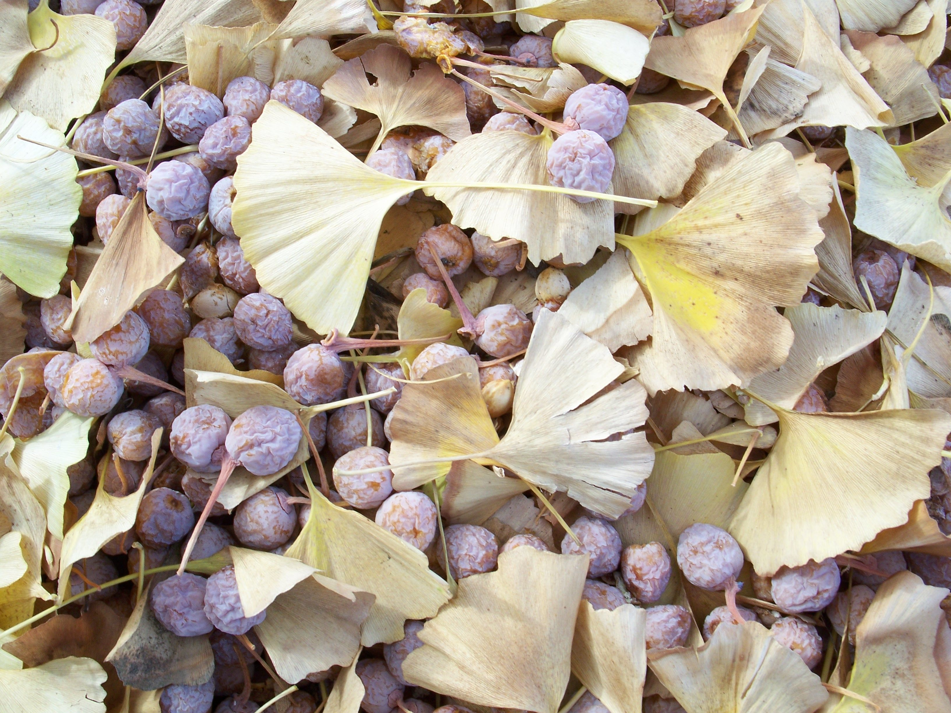 Ginkgo biloba. Leaves and seeds